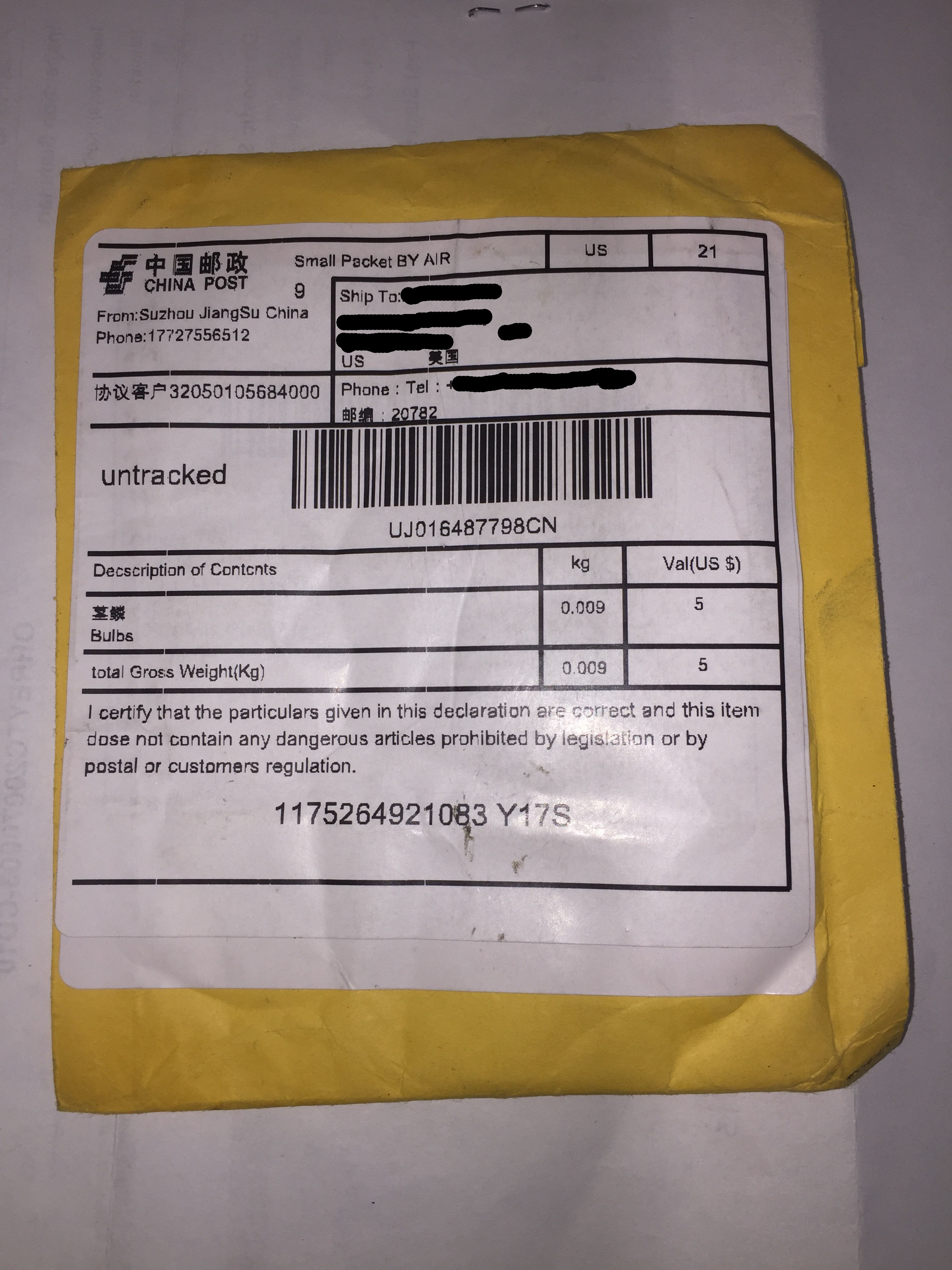 Unsolicited seeds, labeled as things like jewelry and beads, have arrived in mailboxes around the nation, prompting investigation by the U.S Department of Agriculture (USDA). The USDA Animal and Plant Health Inspection Service’s National Identification Services coordinates the identification of plant pests. Scientists analyze seed packages such as these to determine if they contain plant pests. USDA Photo